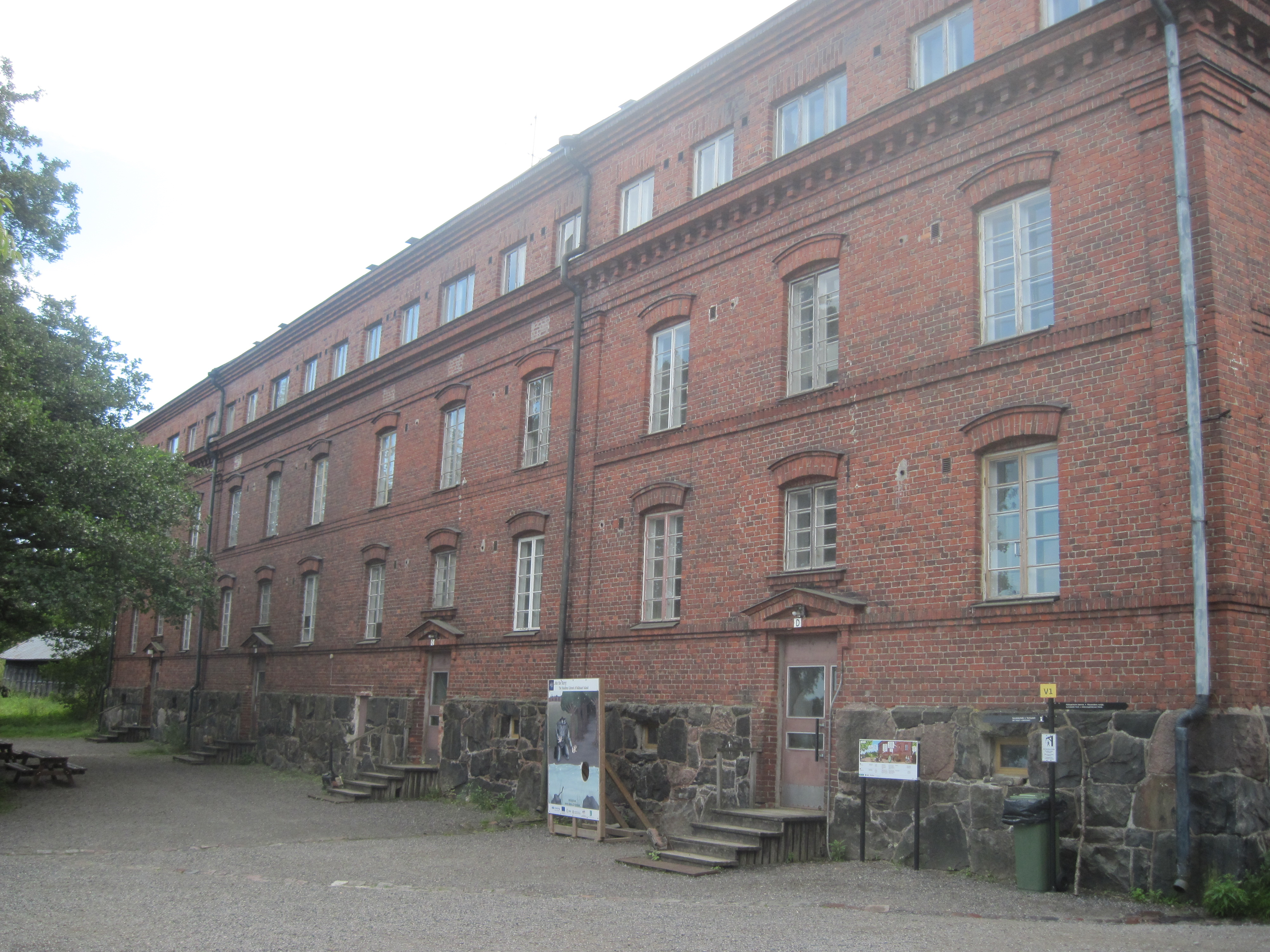 Dwelling house of pilotes at Vallisaari, Helsinki